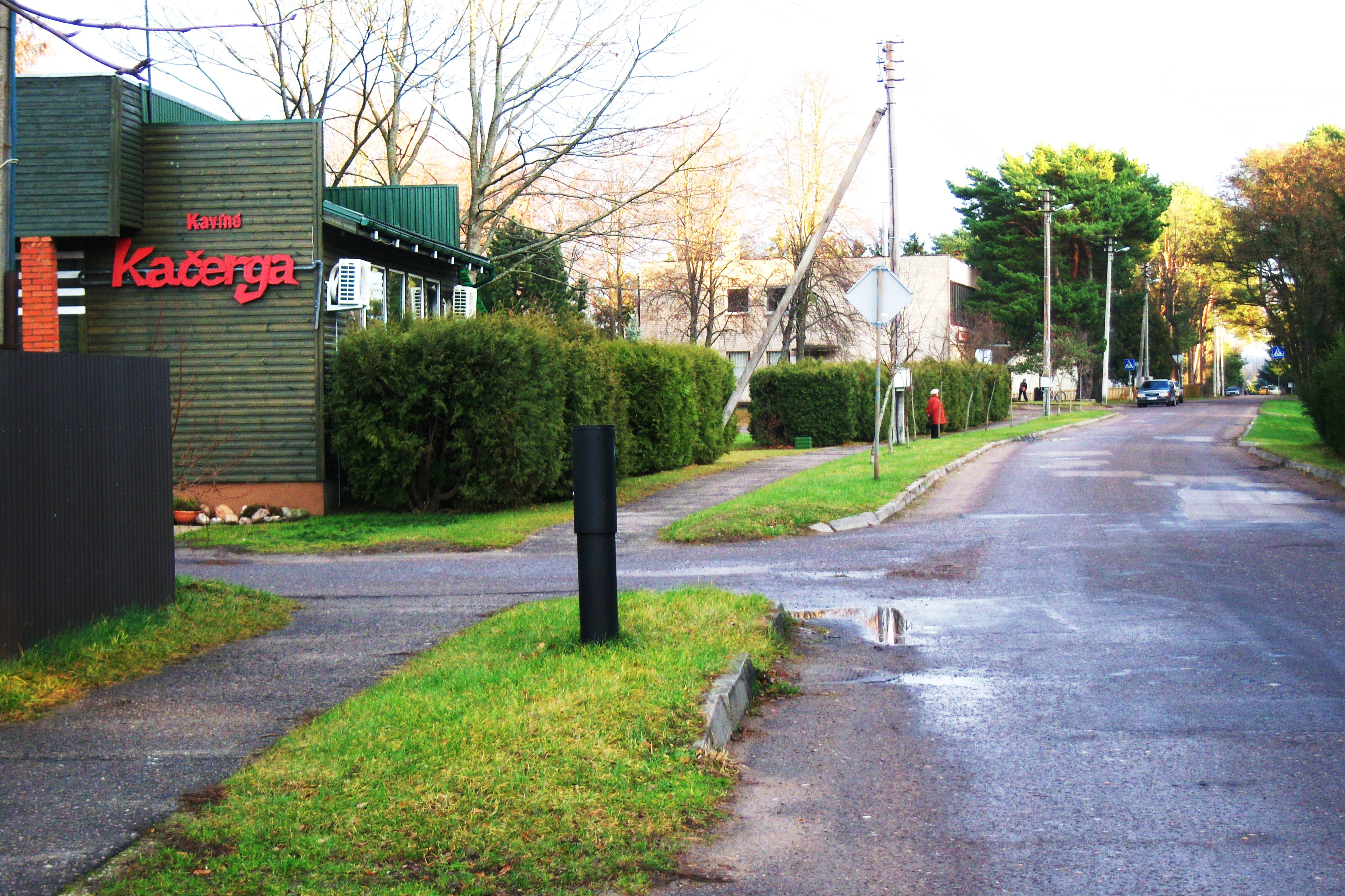 Kačerginė, Kaunas District. Lithuania